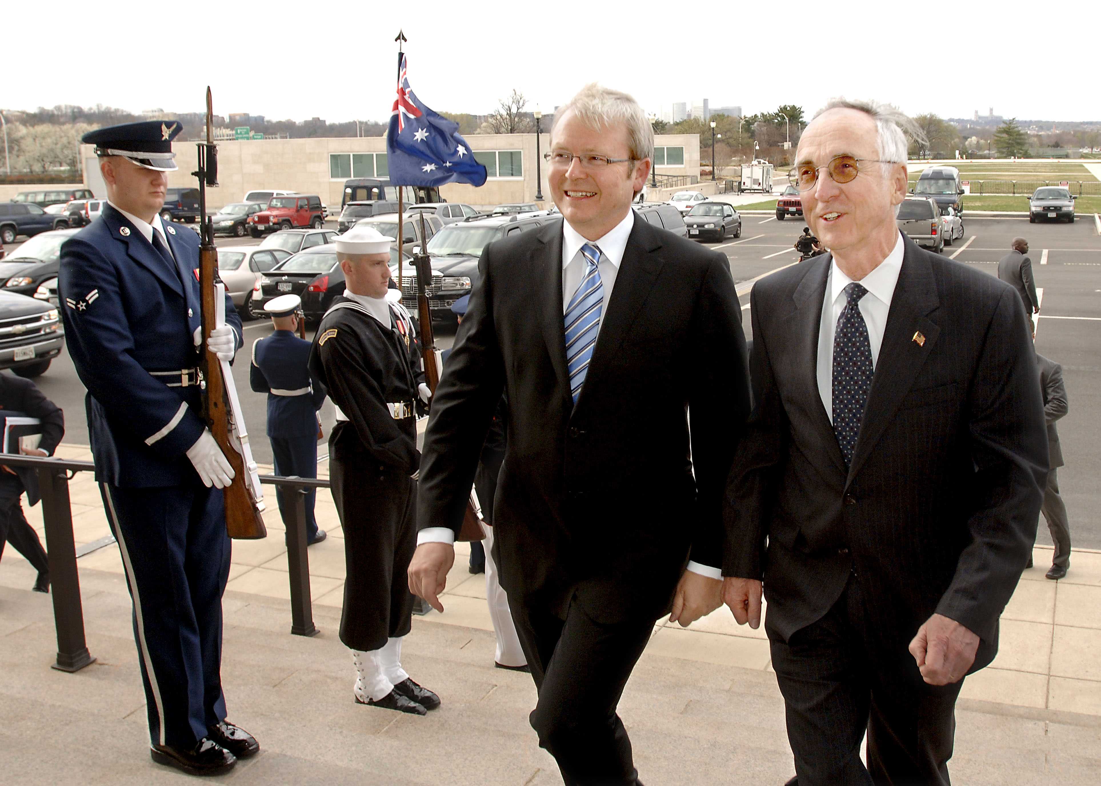 Australian Prime Minister Kevin Rudd (middle) is escorted through an honor cordon and into The Pentagon by US Deputy Secretary of Defense Gordon England (right).